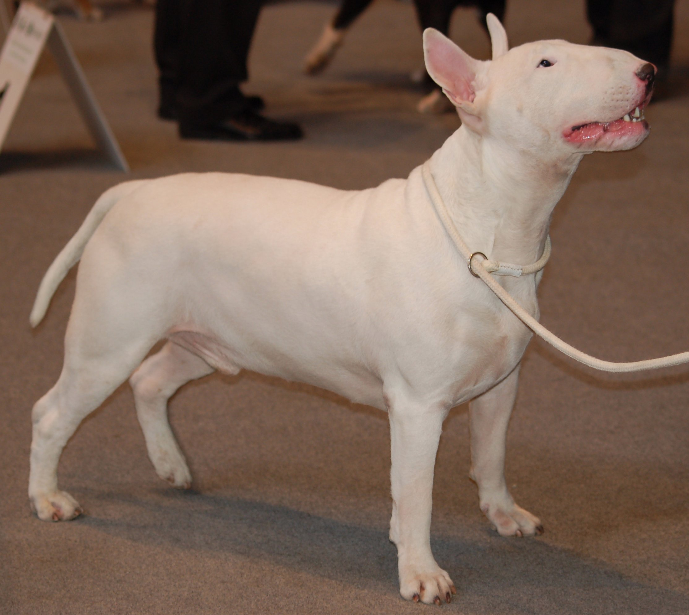 Bull Terrier during dogs show in Katowice, Poland